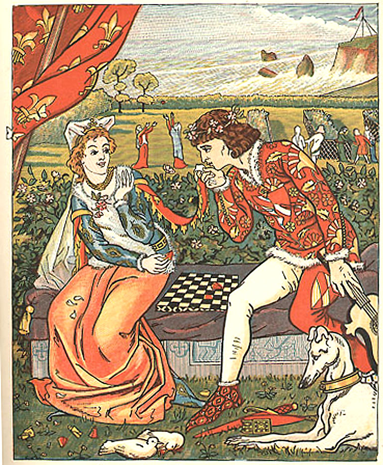 An illustration of "Franklin's Tale" by Geoffrey Chaucer